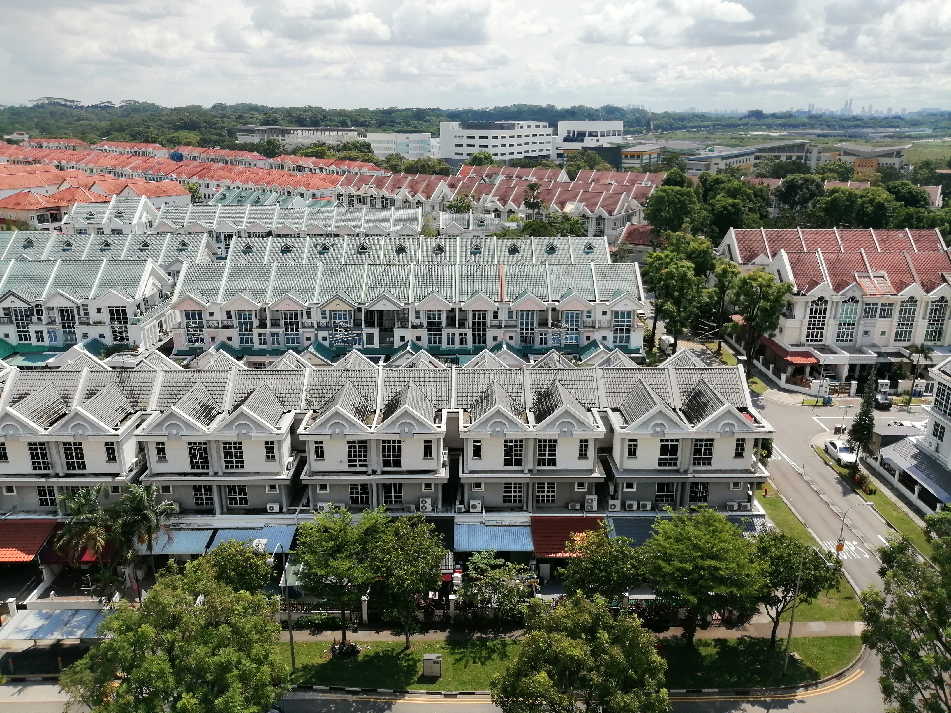 Westwood Avenue.